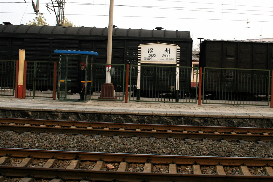 河北省涿州火车站 Zhuozhou Train Station